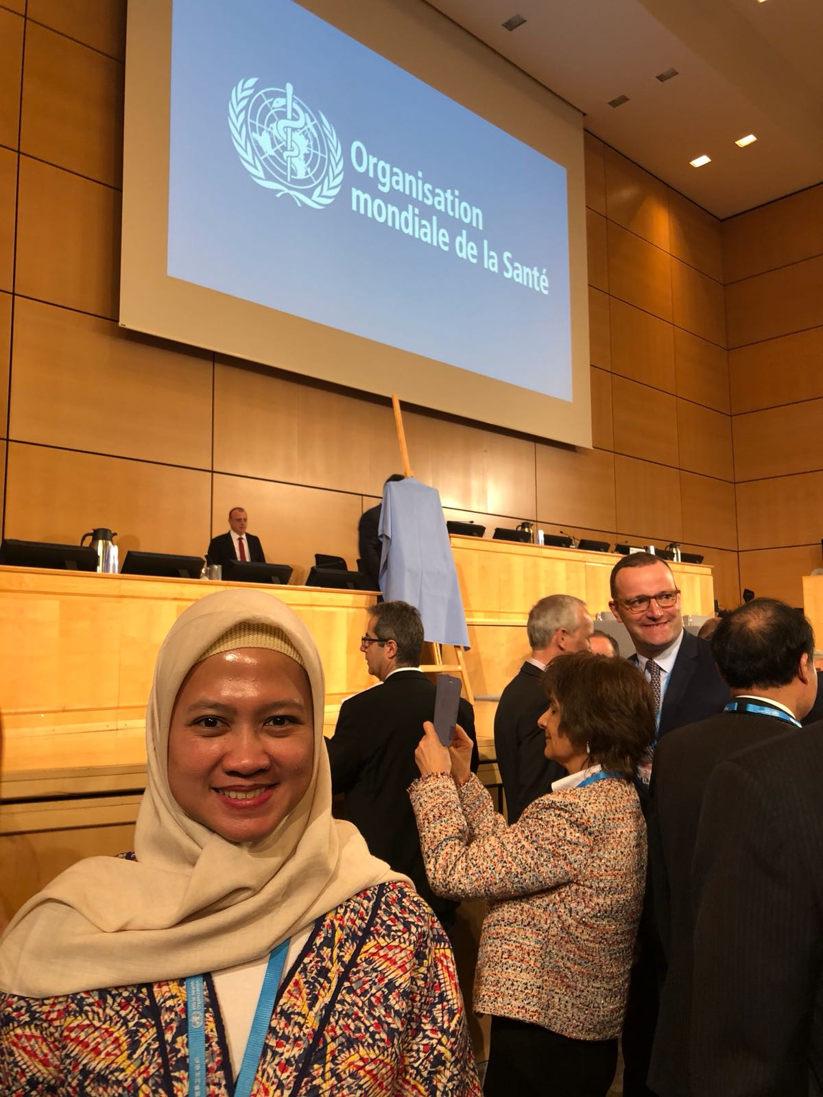 The photo was taken during the week of World Health Assembly 71st in Geneve, Switzerland